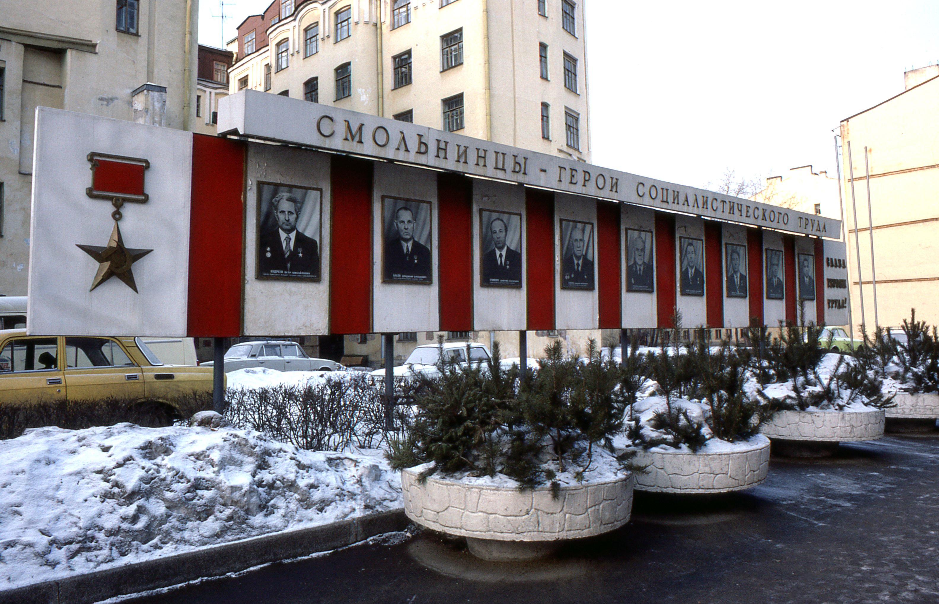 Touristic view